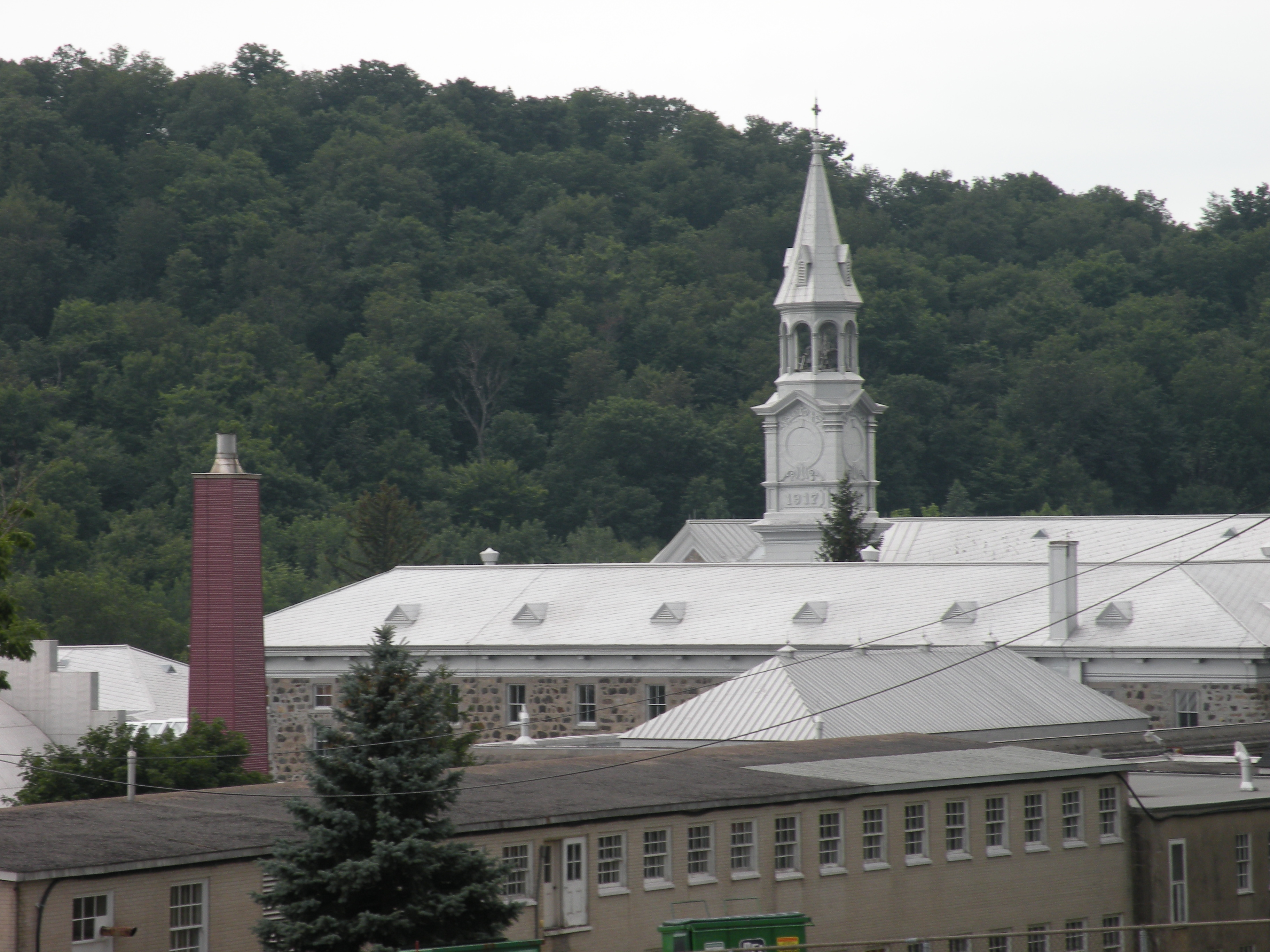 The Oka abbey.